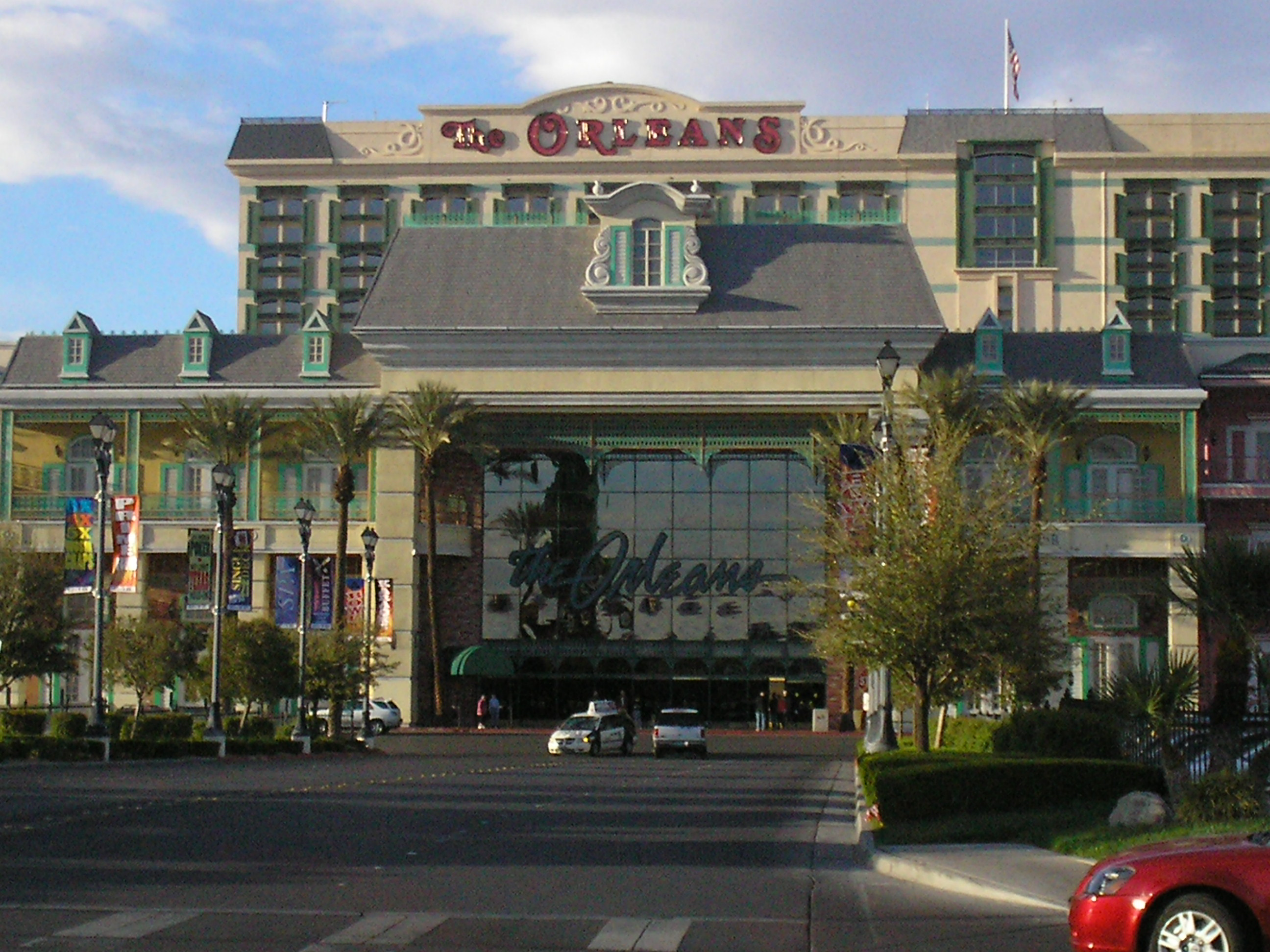 Photo of The Orleans Entrance Las Vegas NV